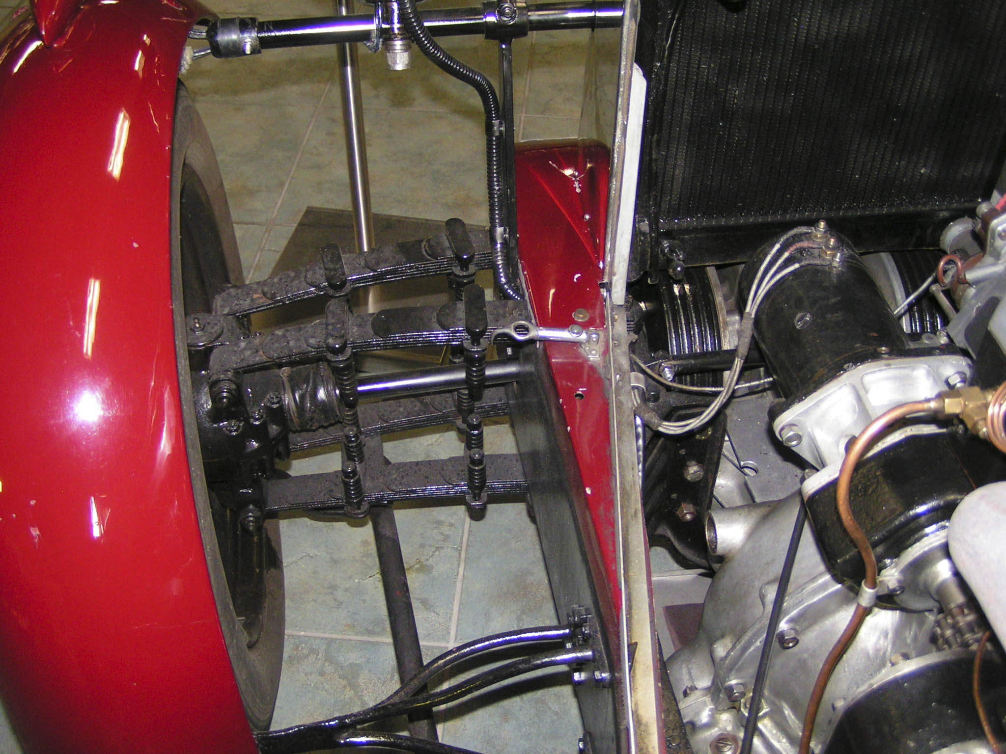 1928 Alvis Model F.D. 1275 - Front suspension You can clearly see here its front wheel drive. Check out the four leaf springs. Powered by a 1.5L supercharged engine and Tourist Trophy Race bodywork.1928 Alvis Model F.D. 12/75 - Front suspension